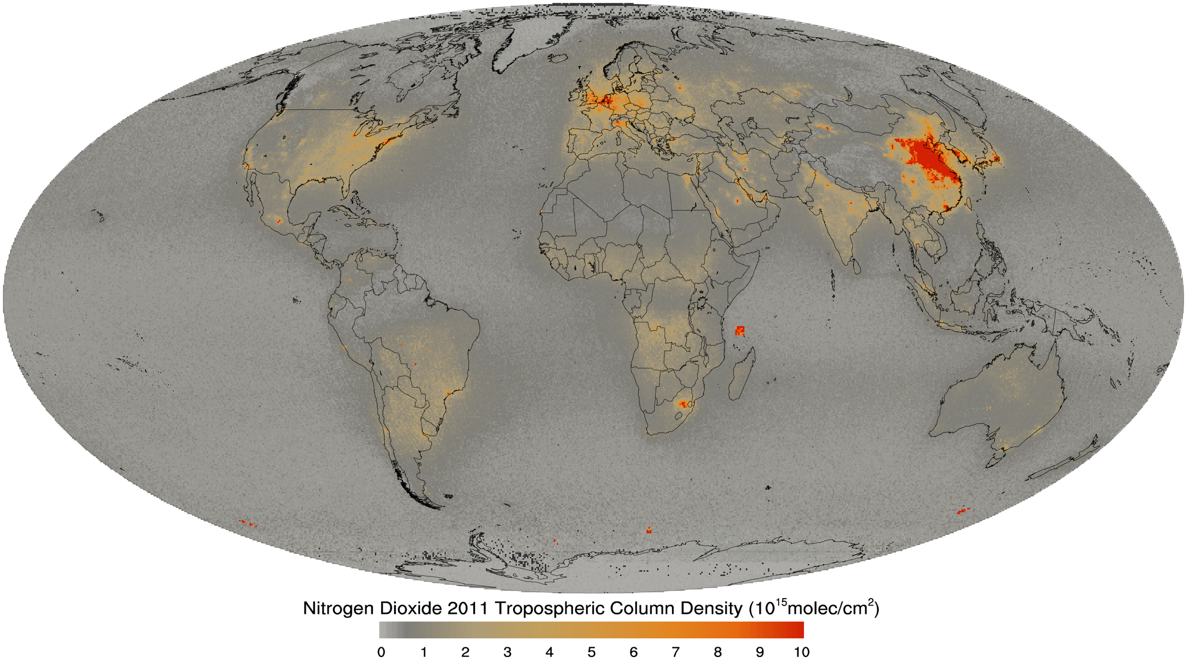 2011 Nitrogen Dioxide tropospheric column density based on OMI/Aura level 3 data. Data